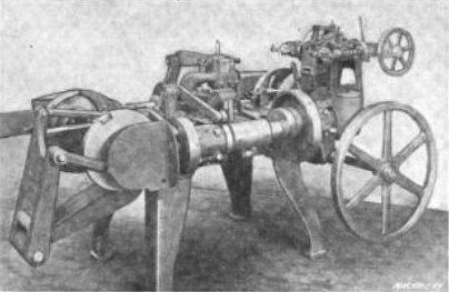 A four slide machine. The original caption is: "Fig. 6. Comparison of Sizes of Wire-forming Machines-a No. 00 standing of the Gear Guards of a No. 5"